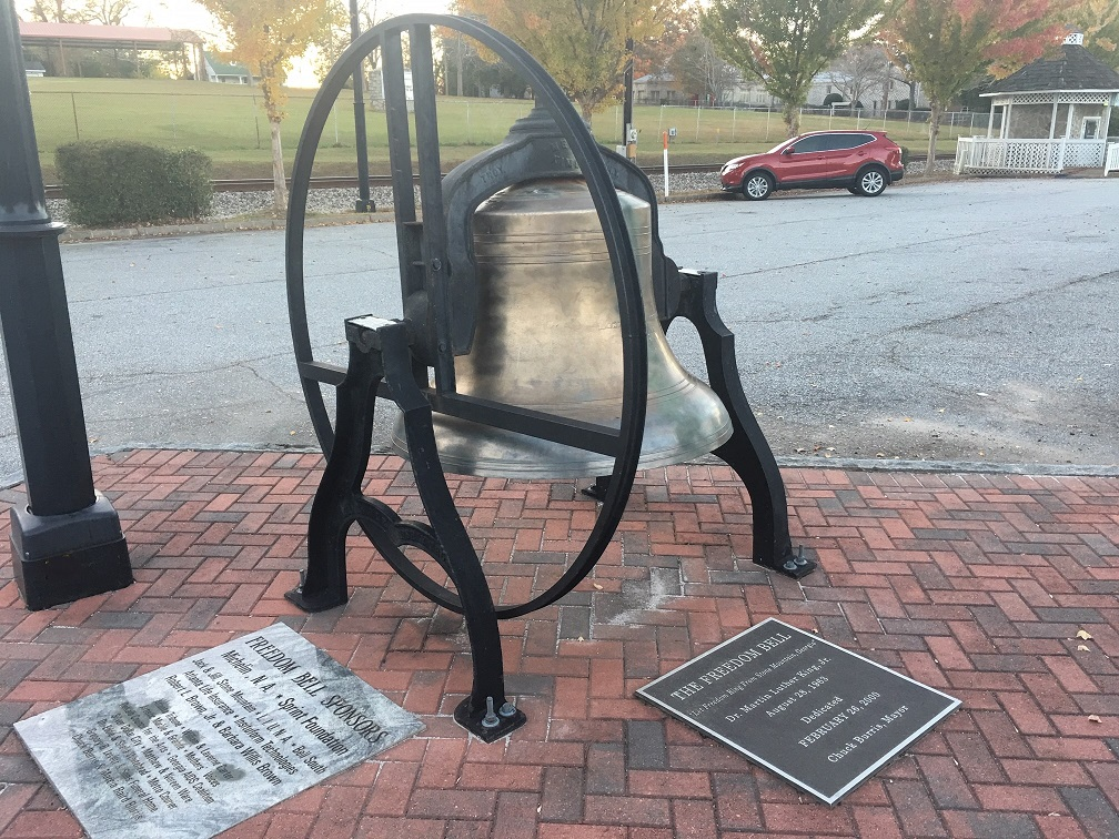 Freedom Bell located at 922 Main Street, Stone Mountain, GA. Honors Martin Luther King, Jr.